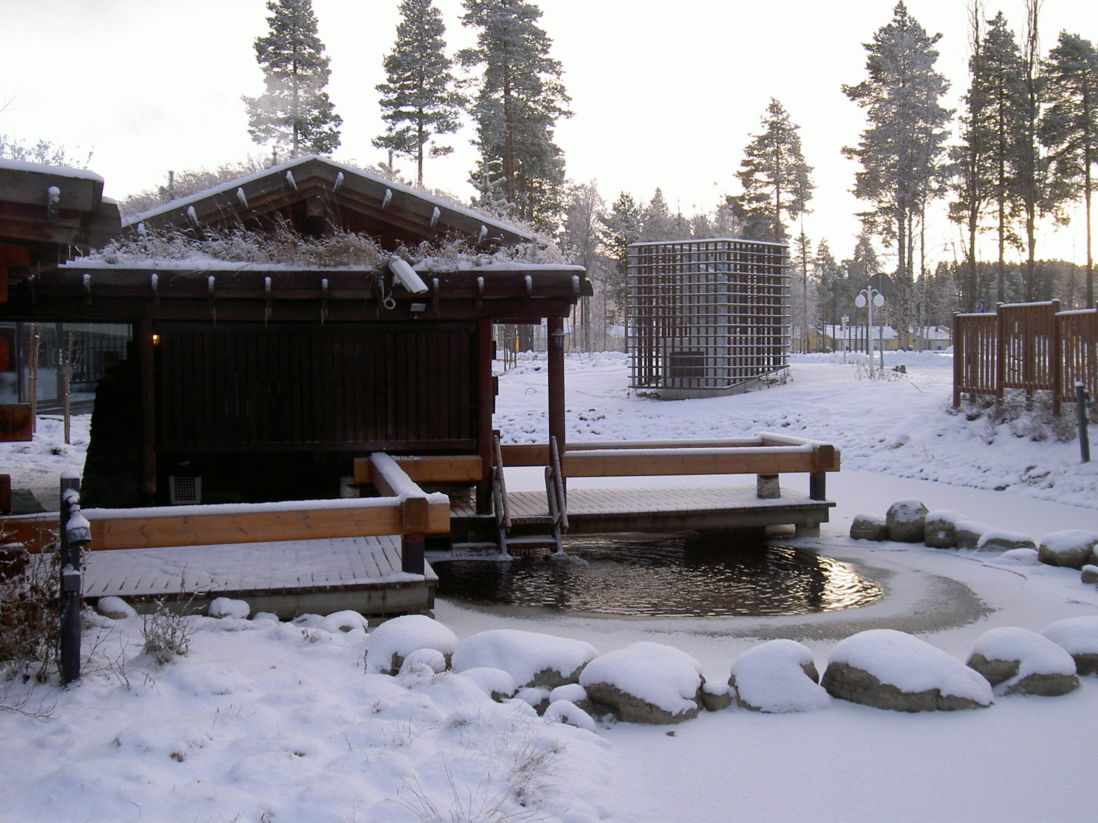 Pool for a sauna in the Vuokatti region in Finland.